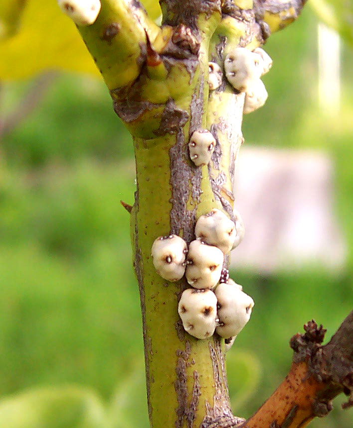 Wax Scale on a Lemon Tree Branch